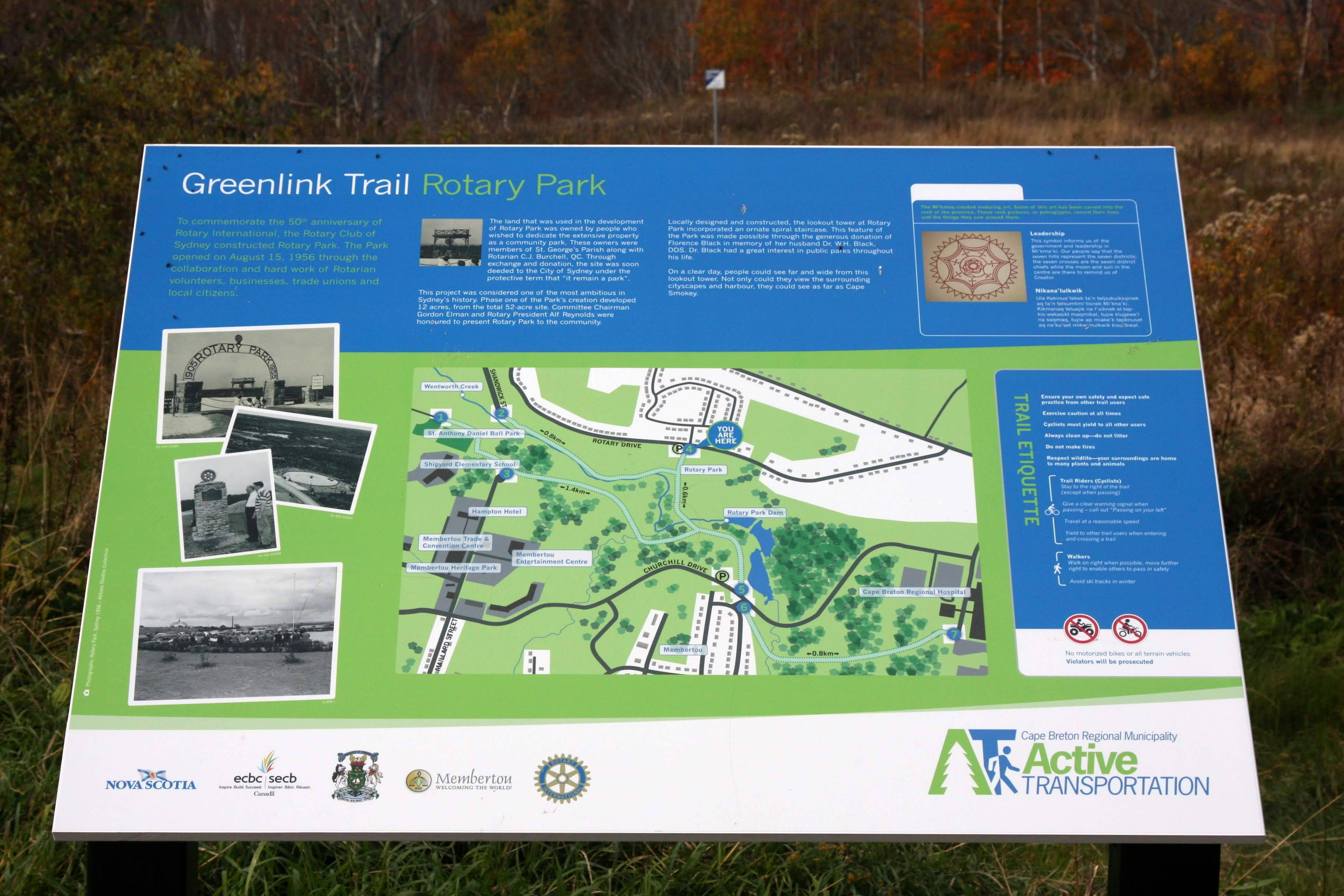 Rotary Park - GreenLink Trails, Sydney, NS - Interpretive Panel at the Rotary Drive Entrance Greenlink Rotary Park Trail System is a Canadian urban park located in Sydney, part of Nova Scotia's Cape Breton Regional Municipality. Greenlink Trail System is a series of 2.5 to 3 metres (8 to 10 ft) wide crushed limestone paths suitable for walkers and cyclists. The gravel surfaces are not suitable for wheelchairs or strollers. The paths meander through a scenic natural area bordering Wentworth Creek (Reservoir Brook, also know as Sullivan's Brook) and a historic water reservoir with a stone dam and waterfall. The paths are not illuminated at night. Benches have been provided along the paths for resting, signs and interpretive displays for information. The trail system connects Sydney’s Shipyard and South End neighbourhoods to Membertou First Nation and the Cape Breton Regional Hospital. Two of the trails system progress from Shandwick Street and the St. Anthony Daniel Ball Park. Both trails converge with the trail from Rotary Drive, cross Churchill Drive, and extend to the Cape Breton Regional Hospital property.